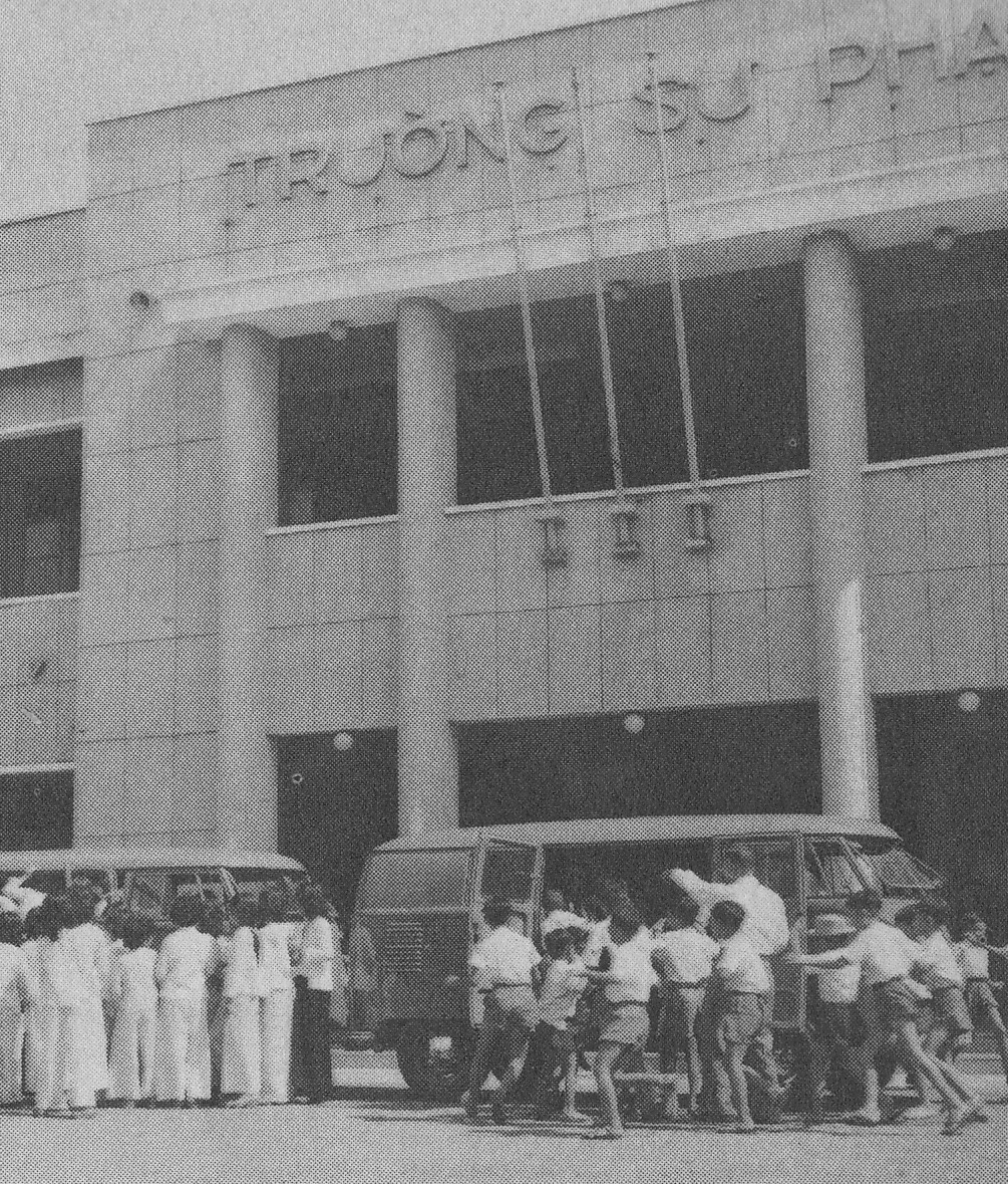 College of Pedagogy at the University of Saigon, Vietnam